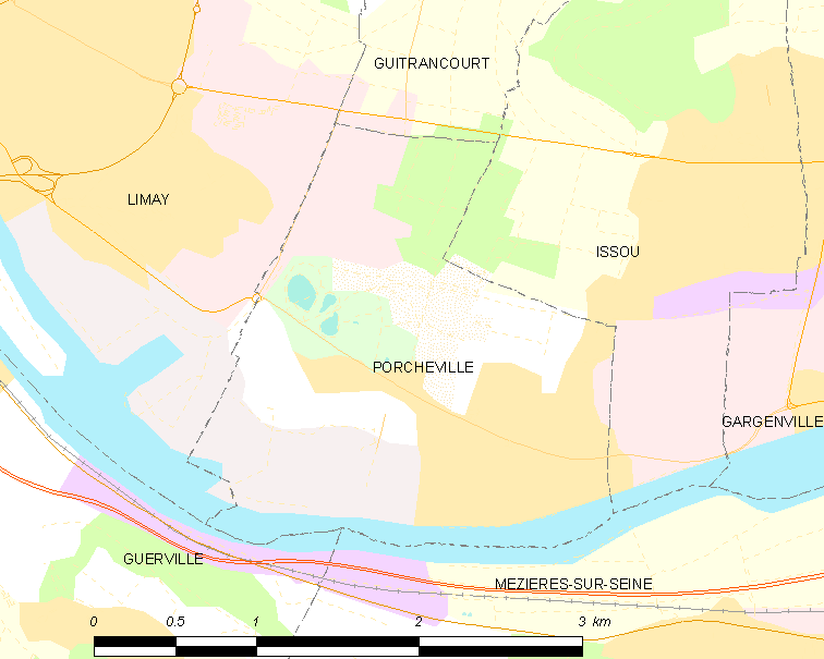 Map of French municipality Porcheville